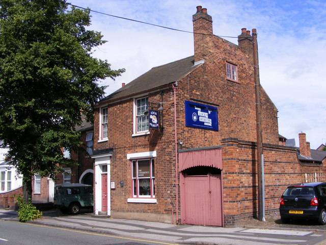 The Locksmith's House The Willenhall Lock Museum stands in New Road.